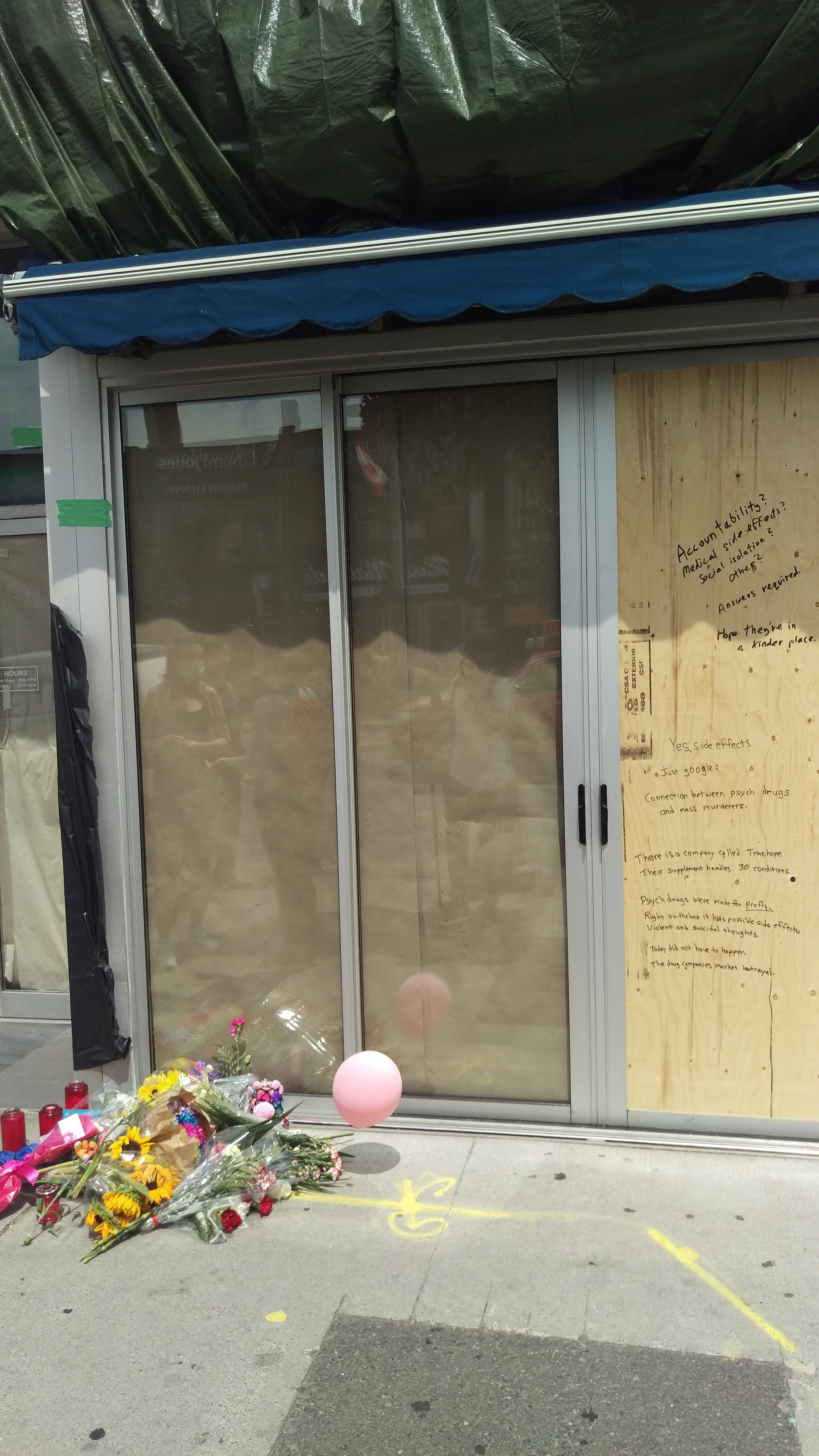 People of Toronto grieved for the death of the 10 year-old girl at this site.